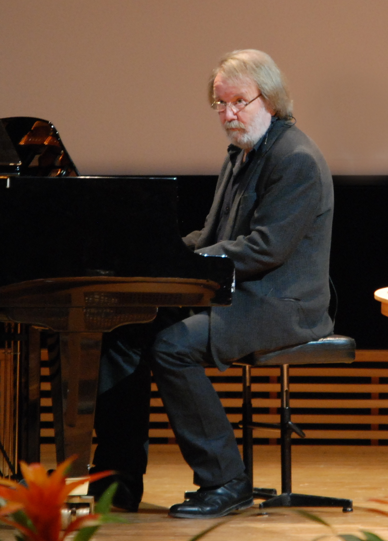 Benny Andersson is talking about his music and his compositions at the Aula Magna at Stockholm University where he is honorary doctor since September 26, 2008